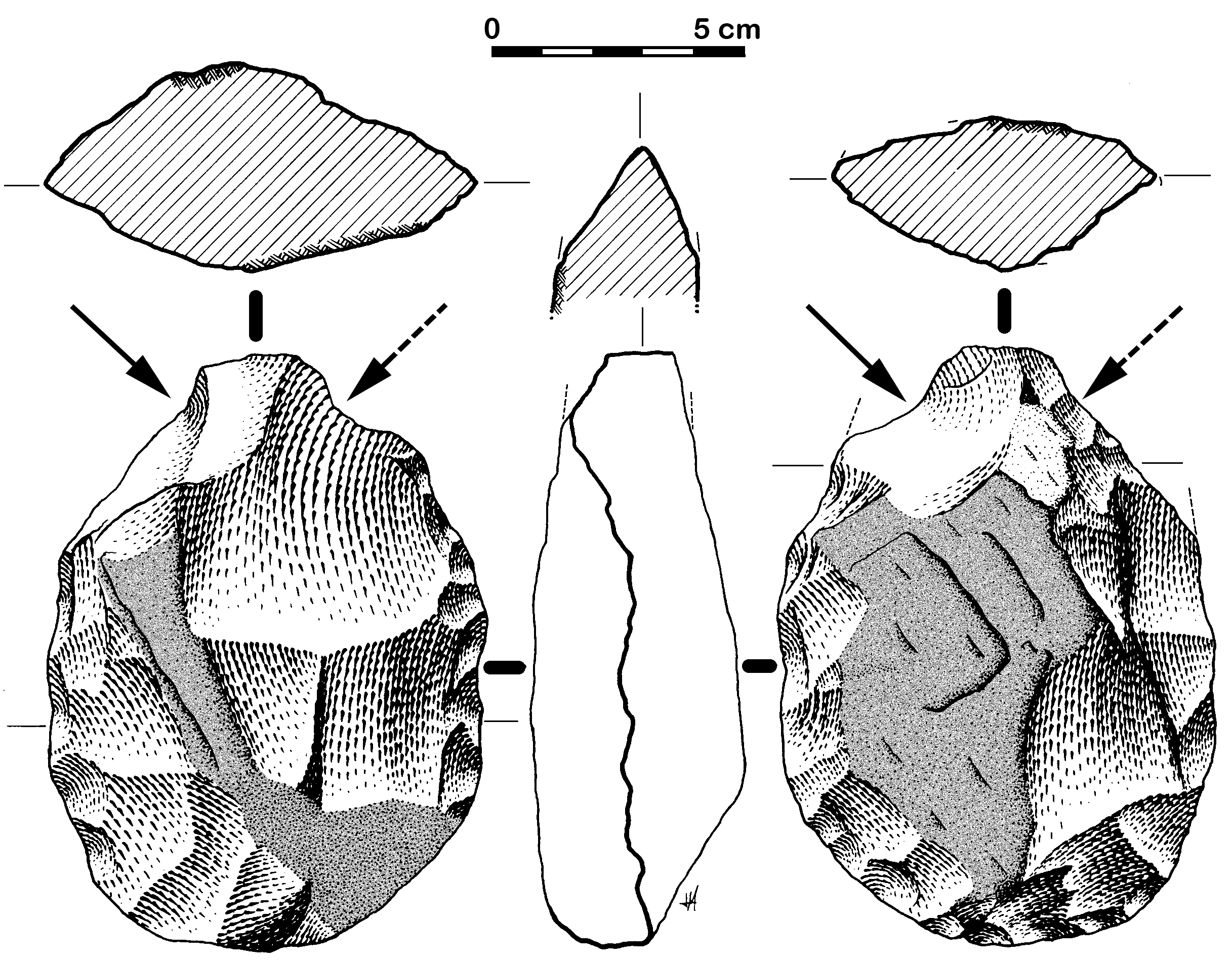 Acheulean hand axe that proceeds from a superficial site in the Salamanca province (Spain), in the valley Tormes river, tributary of Douro river. Its tip was broken and it was resharpened